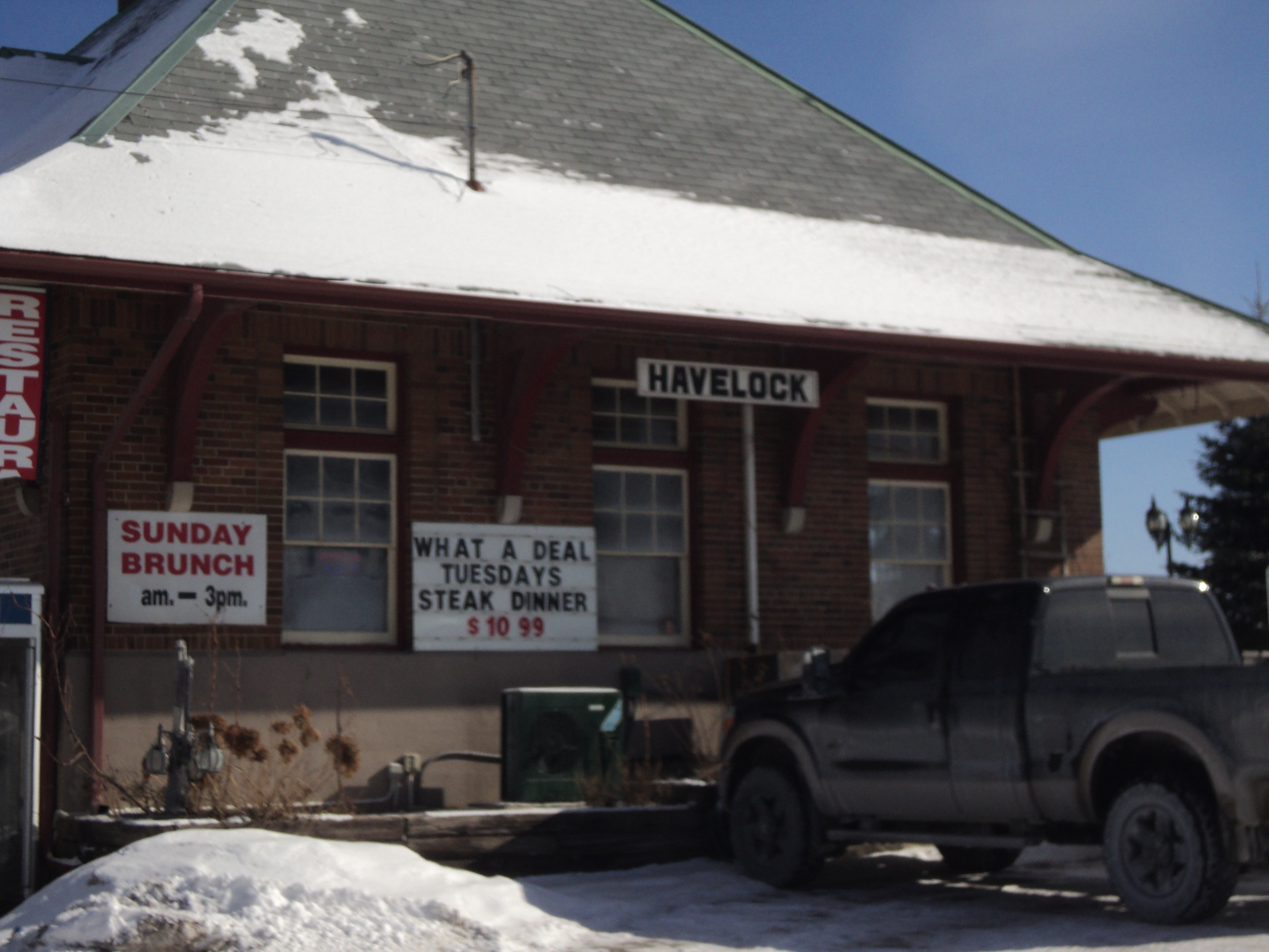 Close-up of the Havelock train staiton.